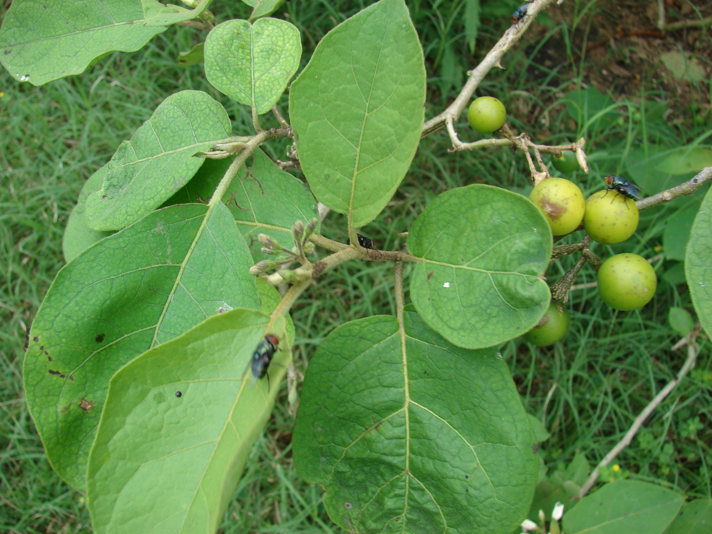 Solanum torvum (Turkeyberry, chundakkai, pea eggplant, makhua phuang) Leaves and fruit at Community Garden Sand Island, Midway Atoll, Hawaii. June 10, 2008 #080610-8297 Image Use Policy